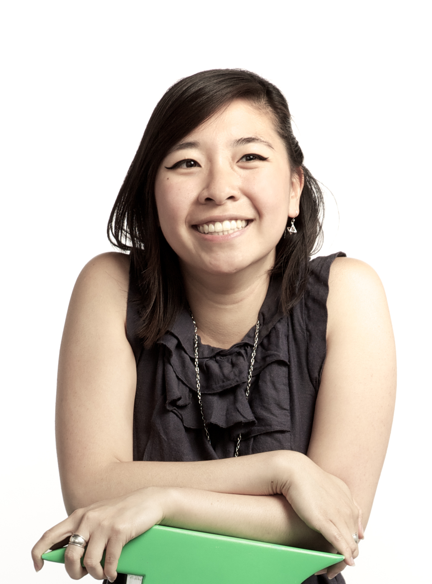 Google employee and "Doodler", Jennifer Hom.